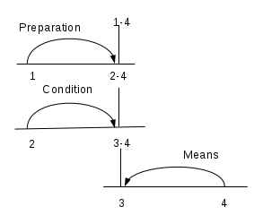 Its a diagram of an RST analysis